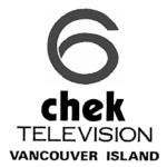 CHEK-TV logo History of File:CHEK-6 logo in 1976.jpg 2009-02-09T10:21:02Z Creativity-II (Talk | contribs) (439 bytes) ( logo fur|Article=CHEK-TV|Use=Org|Source=Scanned from a 1977 Western British Columbia edition of TV Guide and enhanced with Photoshop|Used for=CHEK-TV|Owner=|Website=|Hi) 2009-02-09T10:21:01Z Creativity-II (Talk | contribs) (150x150) (11265 bytes)